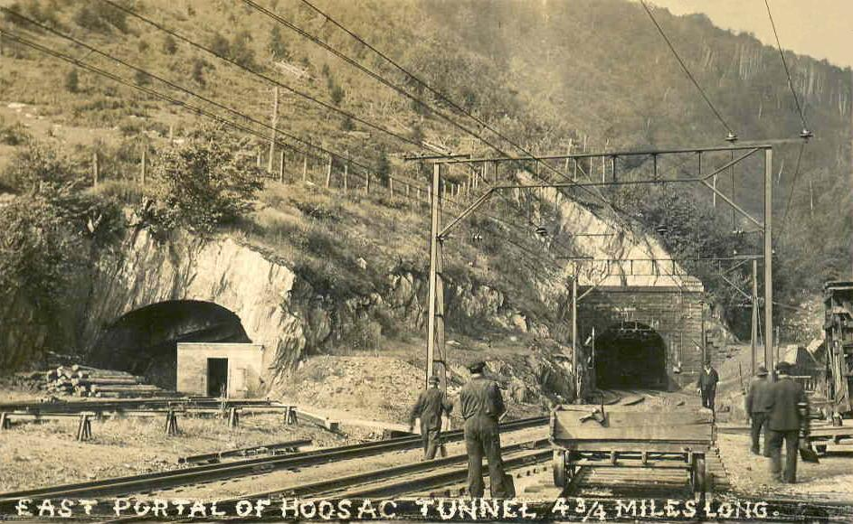 East Portal of the Hoosac Tunnel, Florida, Massachusetts